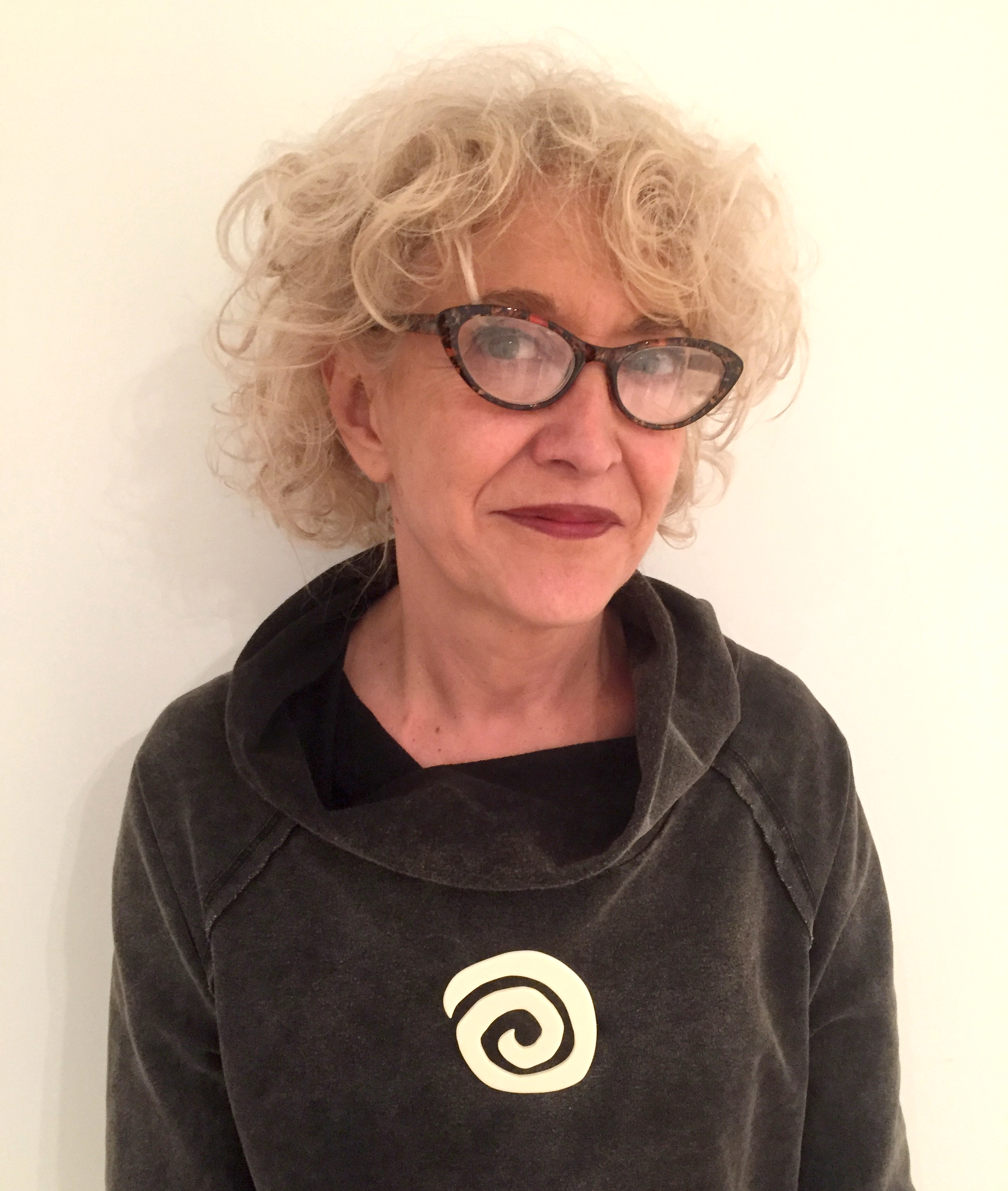 En la galería Freijó de Madrid